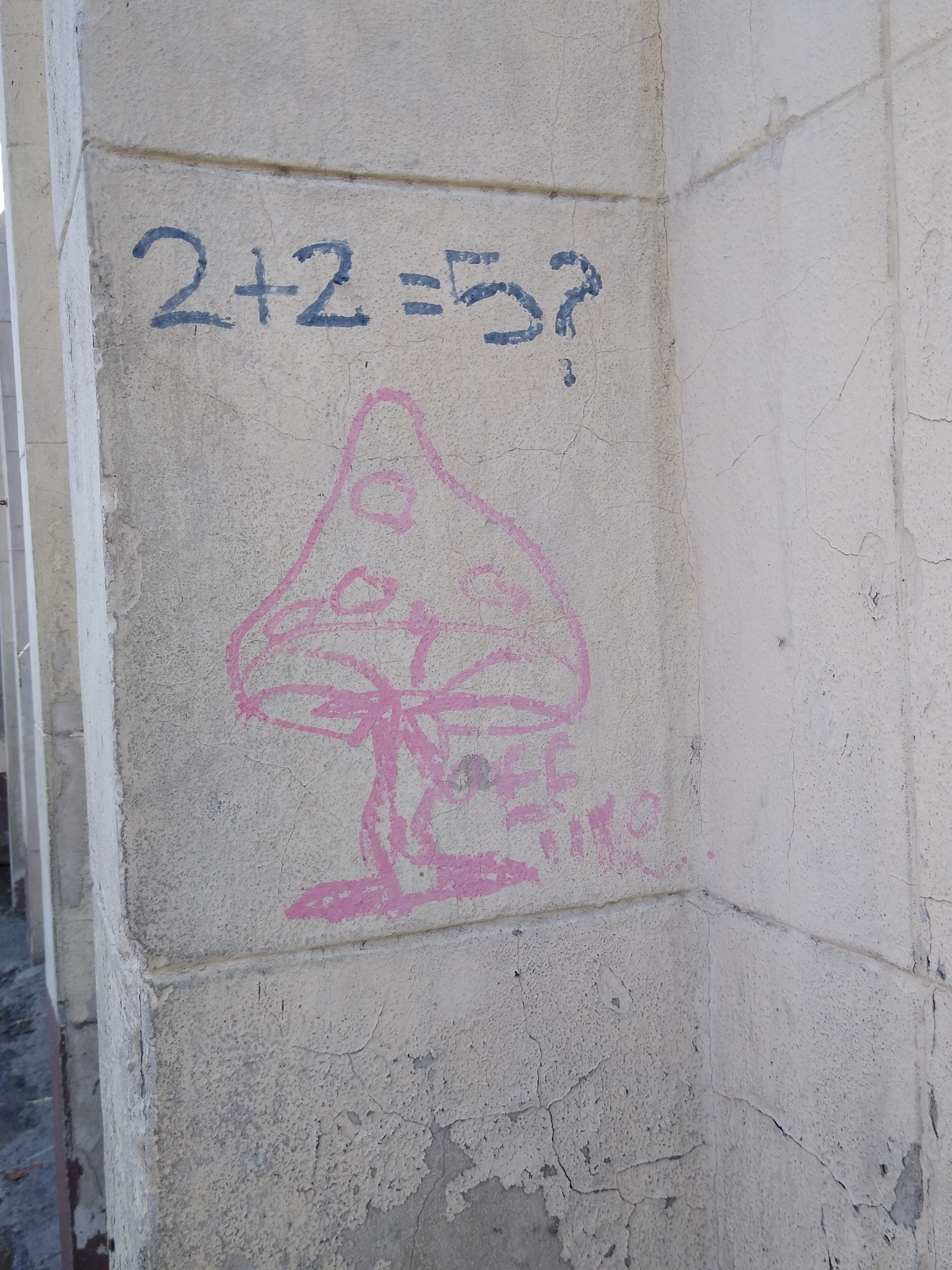 Photograph of grafiti seen in El Centro neighborhood of Havana, Cuba - Photo by James M. Branum